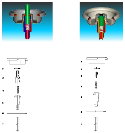 scheme of valve for aerosol package